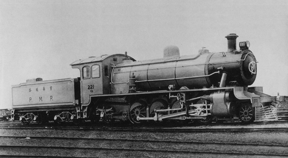 Locomotive no. 221 of the Peiping-Mukden Railway (later North China Transportation Mikana class, later China Railways JF7 class)